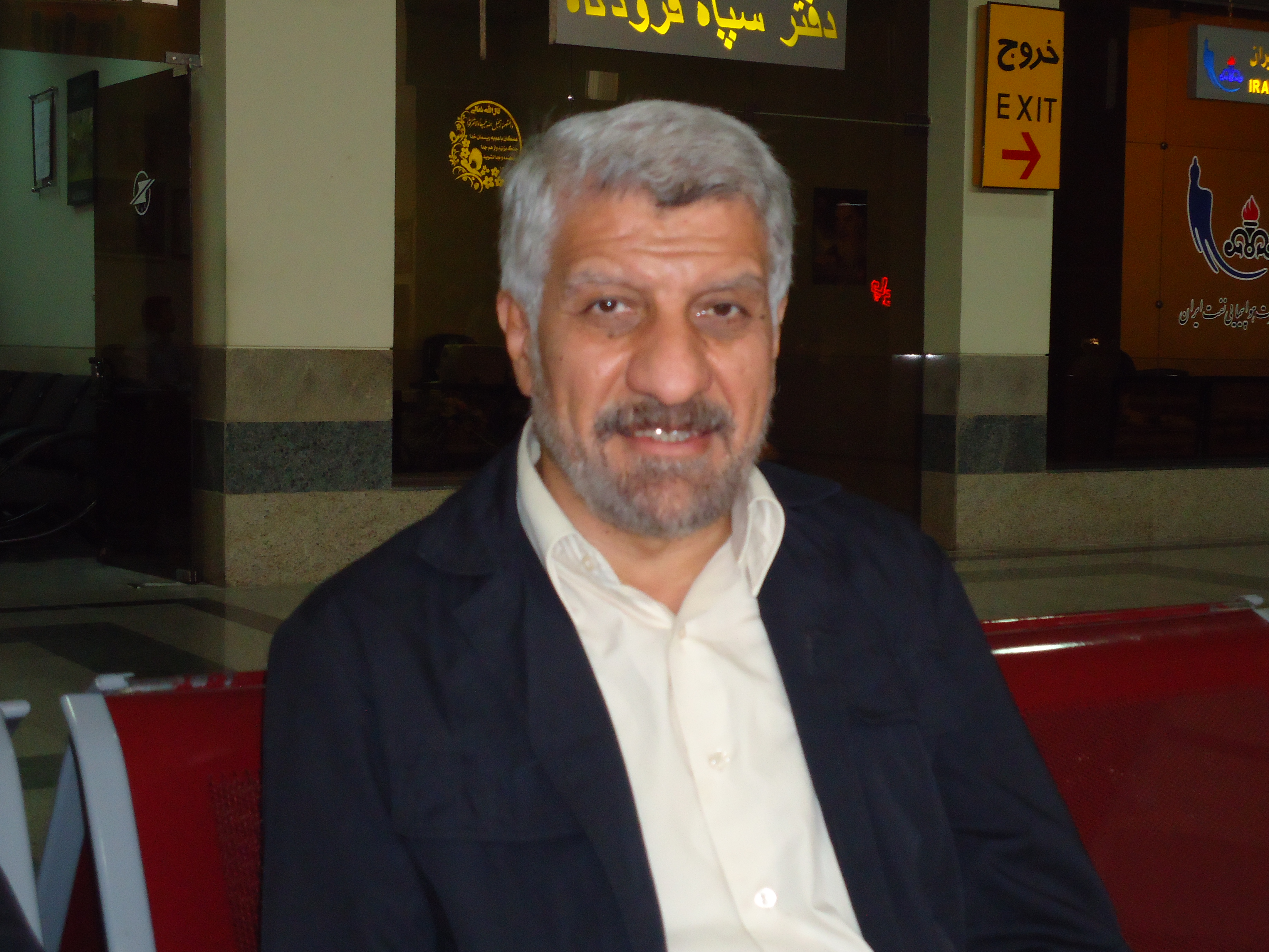 Sadegh Ahangaran